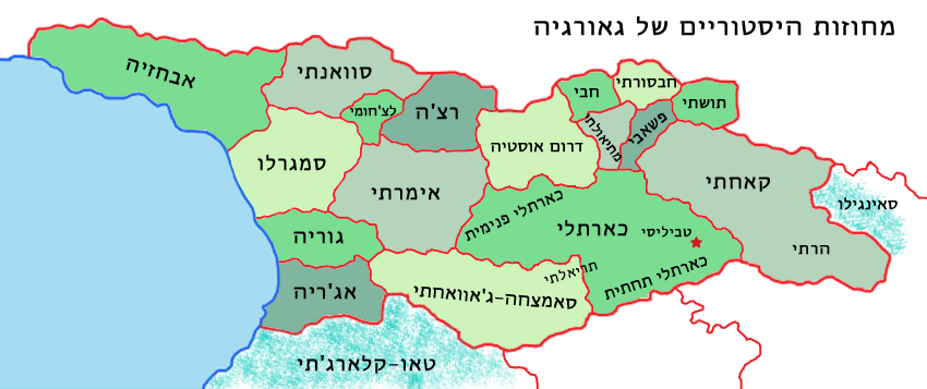 Based on File:Georgia historiallinen.png